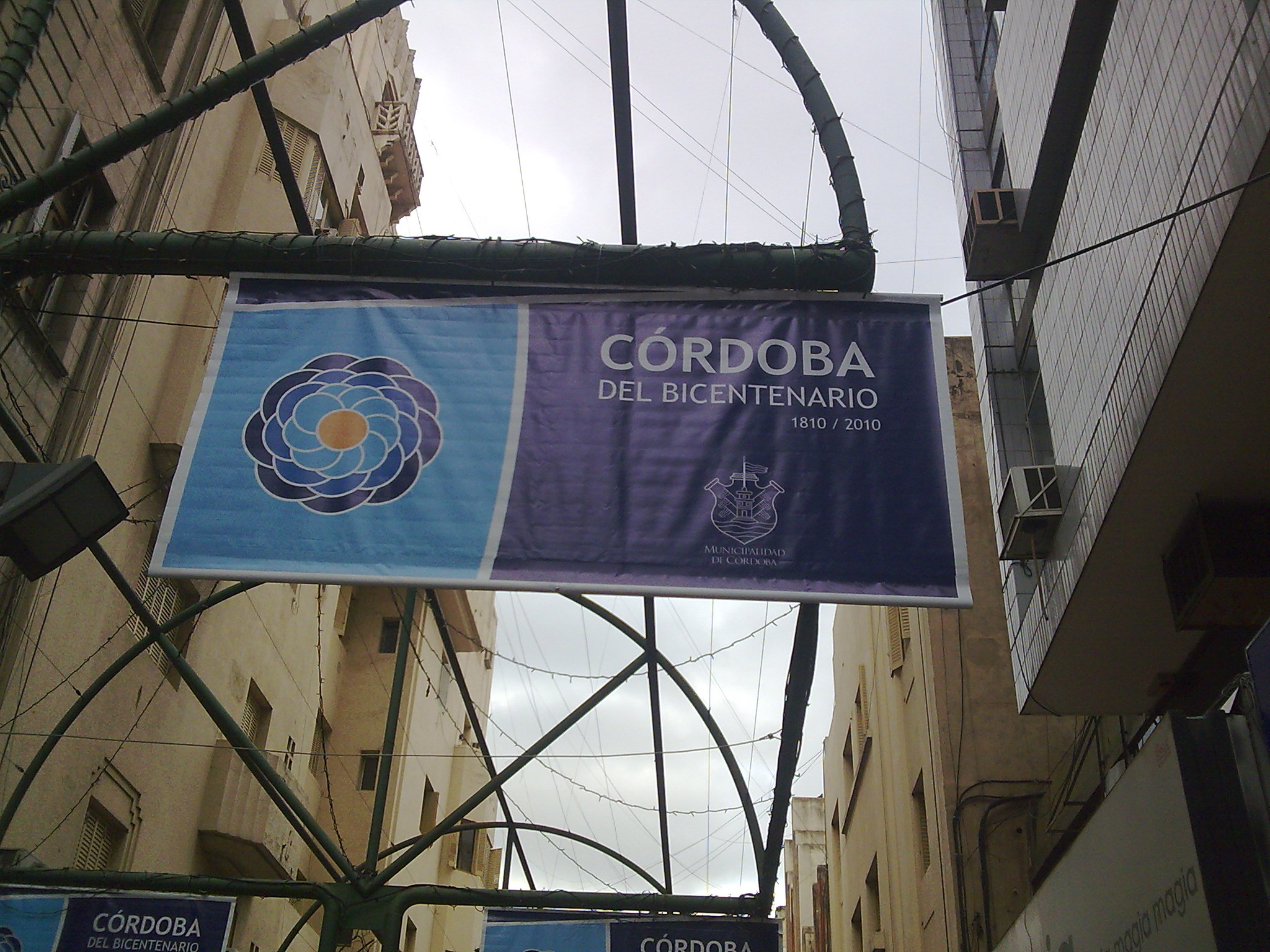 Poster commemorating the bicentenary of Argentina. Taken on the corner of 9 de julio pedestrian-street and General Paz avenue. Cordoba, Argentina.